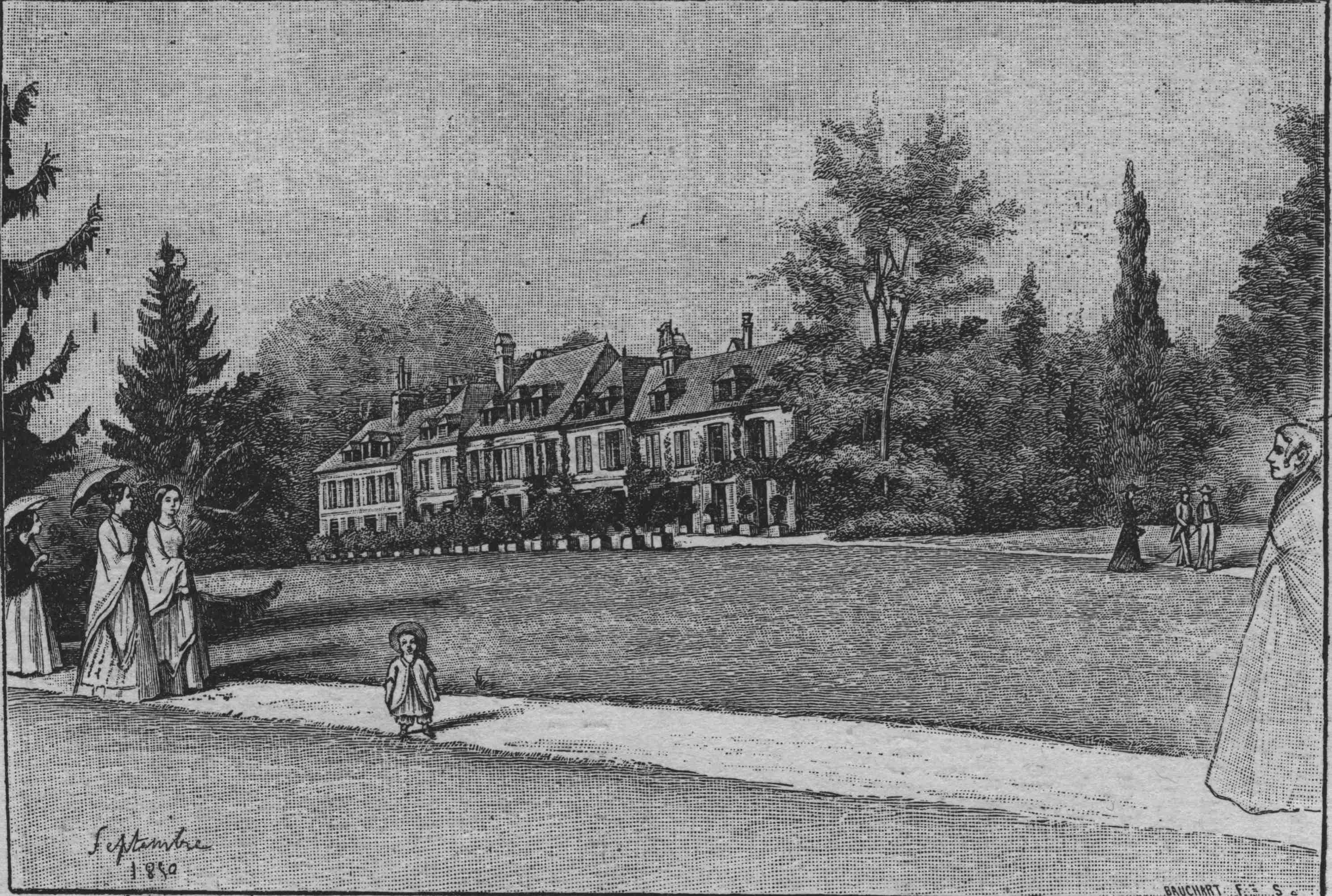 Le chateau des Nouettes dessiné par Mgr de Ségur (1820-1881), page 57 des Lettres d'une Grand'mère, lettres posthumes de comtesse de Ségur écrites à son petit fils Jacques de Pitray et éditée par sa fille.